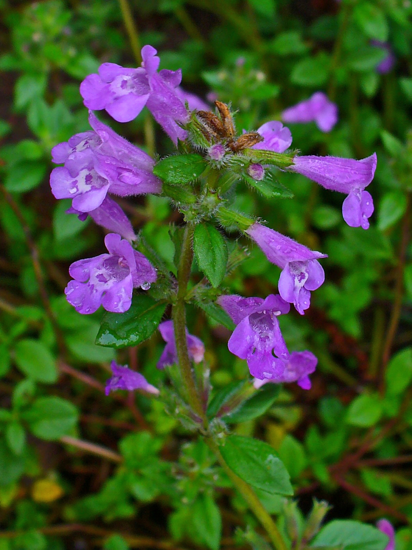 Acinos alpinus, Lamiaceae, Rock thyme, inflorescence; Botanical Garden KIT, Karlsruhe, Germany.